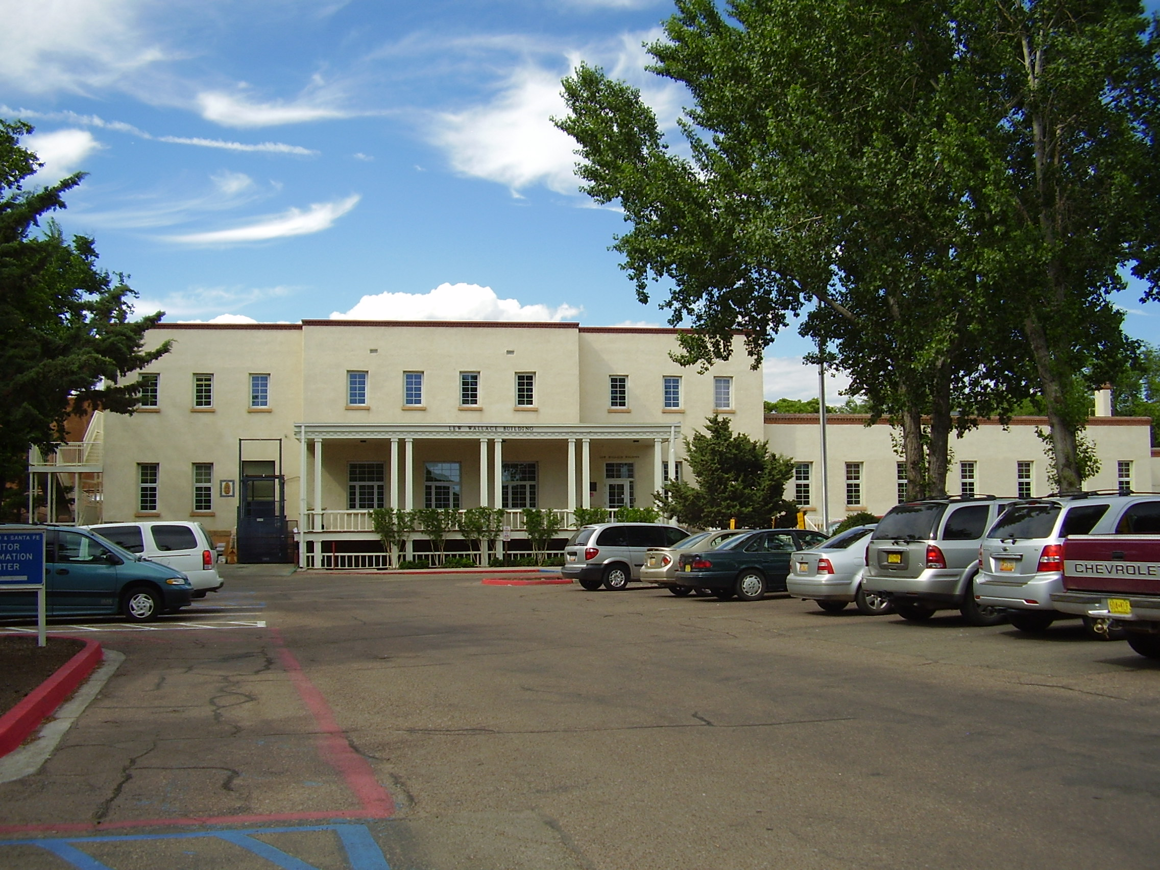 Lew Wallace Building in Santa Fe, New Mexico - it houses the Office of the State Engineer and New Mexico Magazine